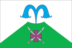 Flag of Azovskoe rural settlement, Krasnodar Territory, Russia